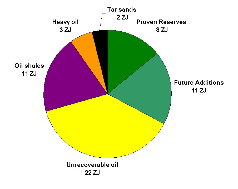 Author: Frank van Mierlo Breakdown of the remaining 57 ZJ of oil on the planet. Annual oil consumption was 0.17 ZJ in 2004. Compiled from data of several sources. See article Energy: world resources and consumption for exact references.